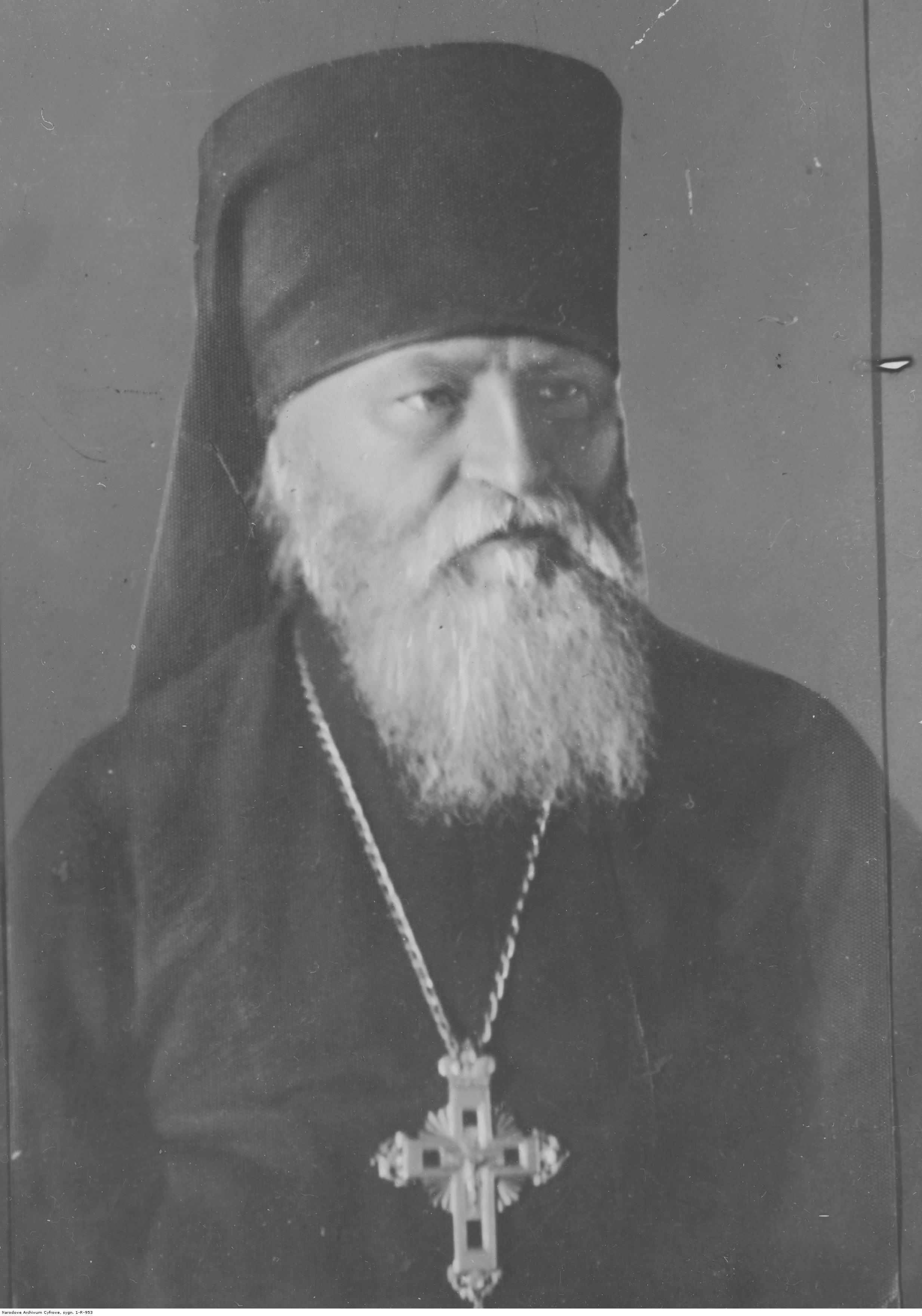 Bishop Polikarp (Sikorski) of Wolhynia